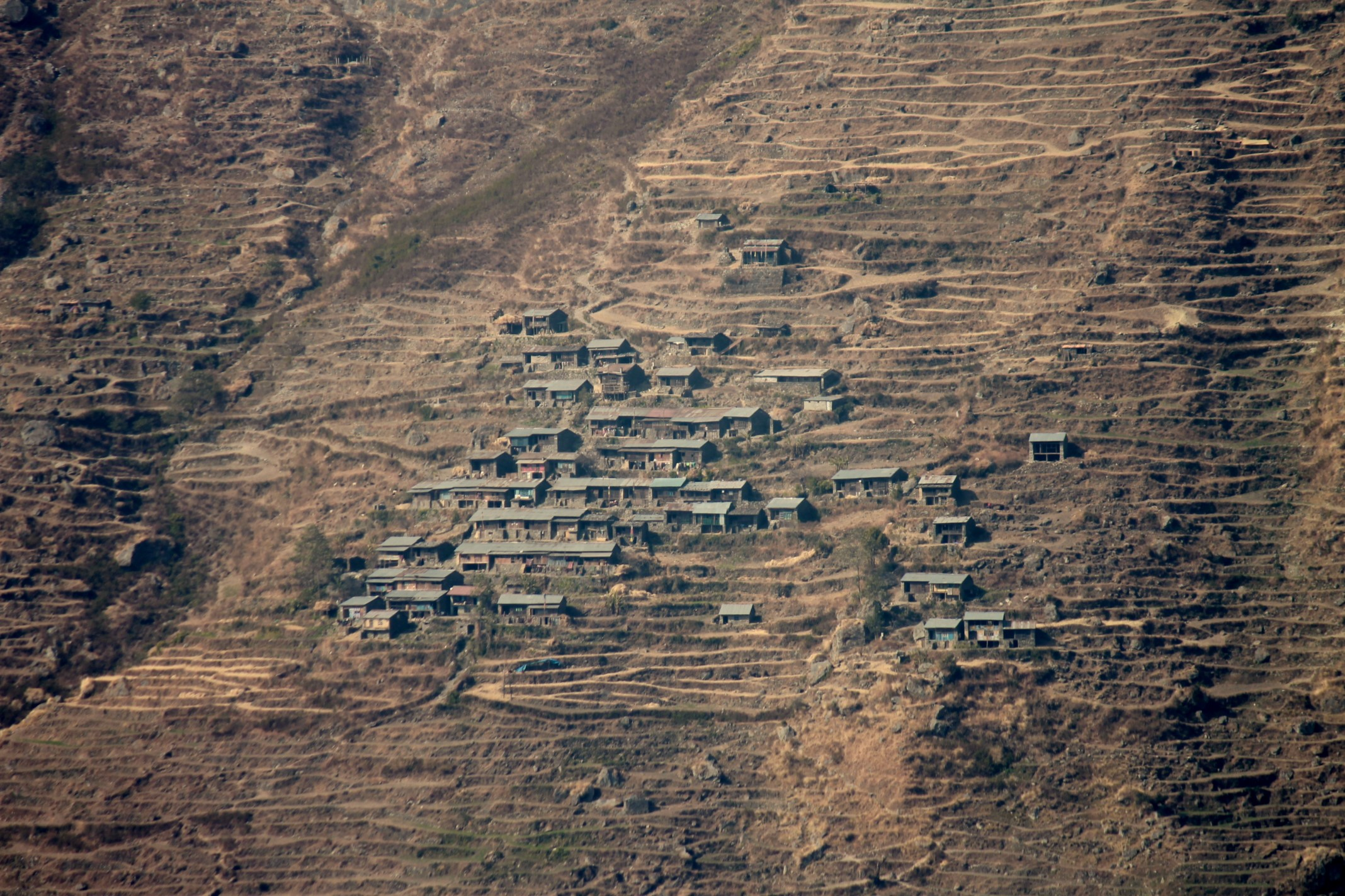 Village in hills slope